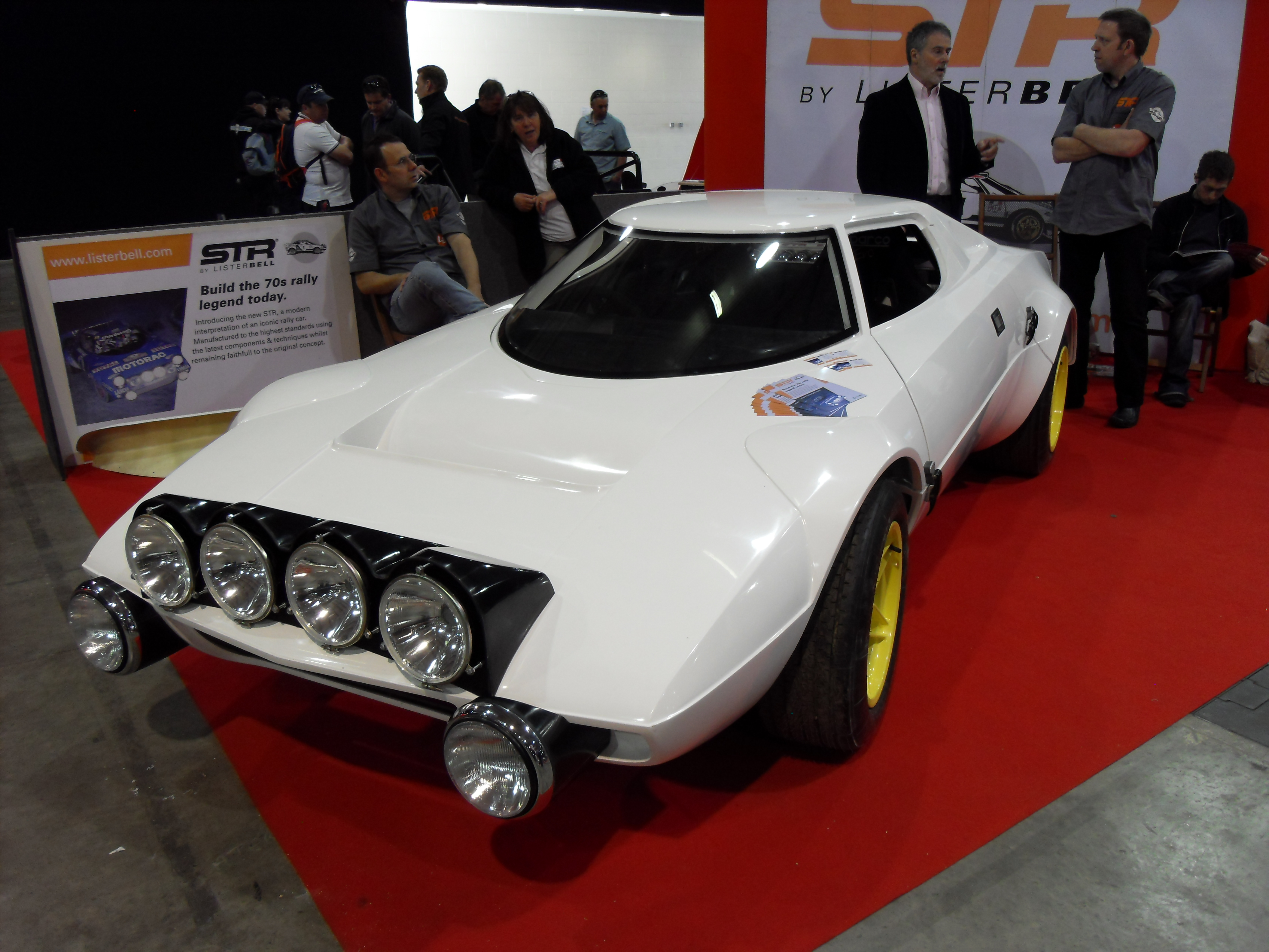 National Kit Car Show Stoneleigh 2011